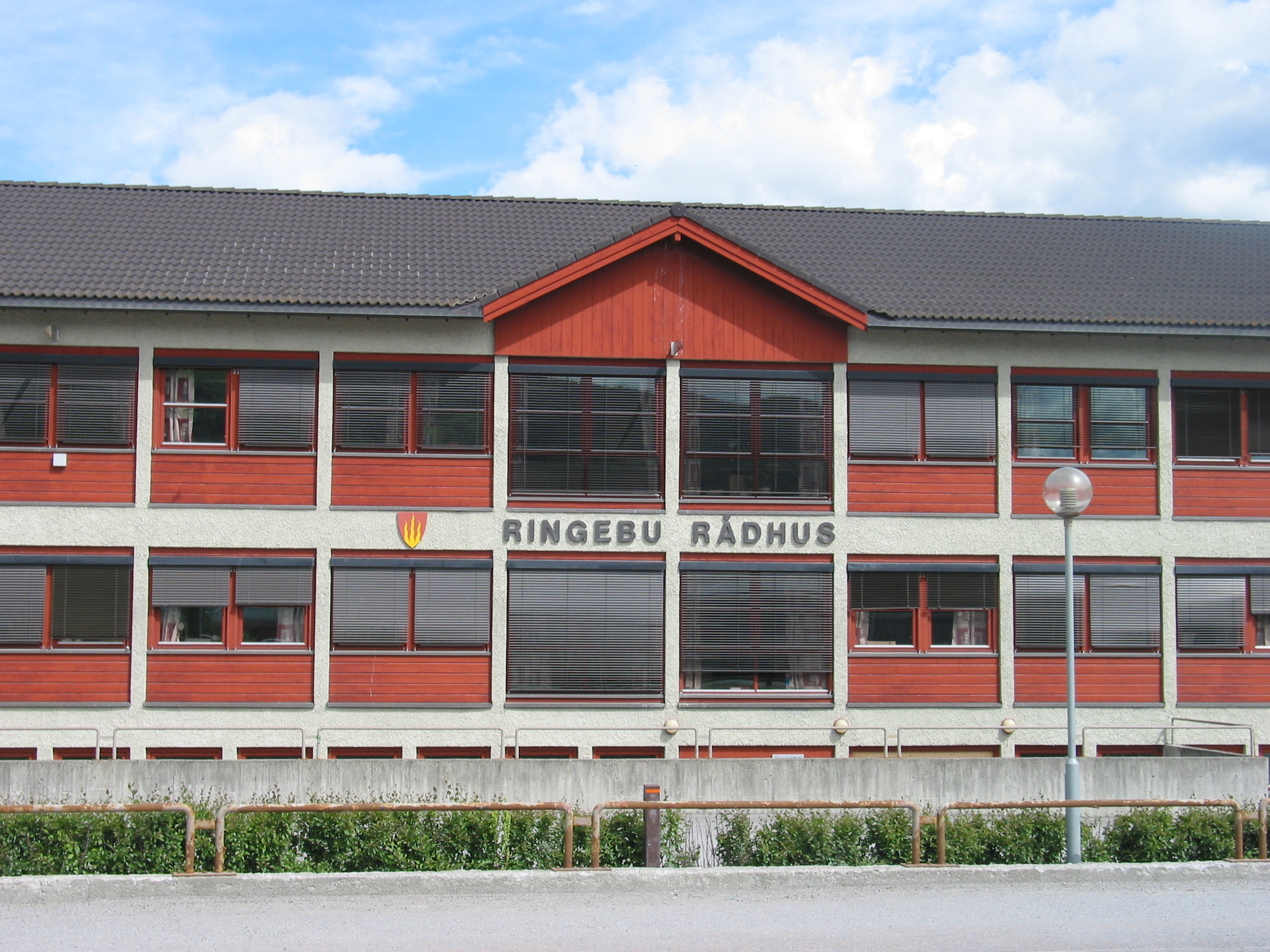 Ringebu town hall, in the village of Ringebu. June 2008.